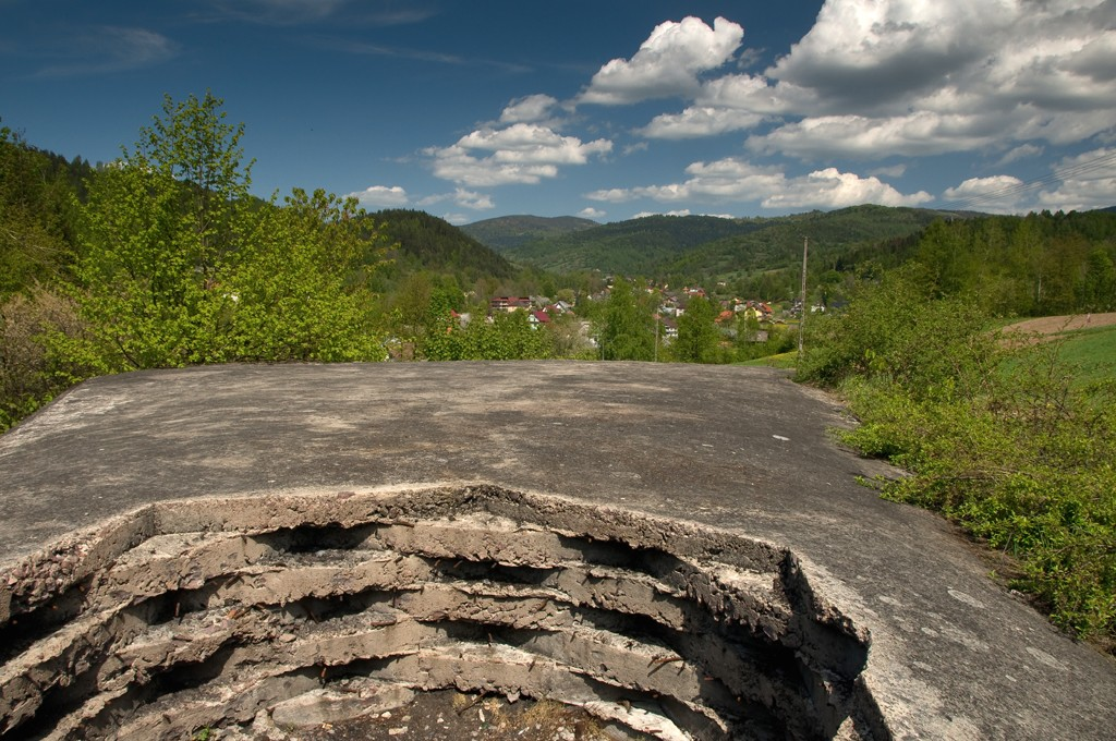 Poland; Przyborow; fort